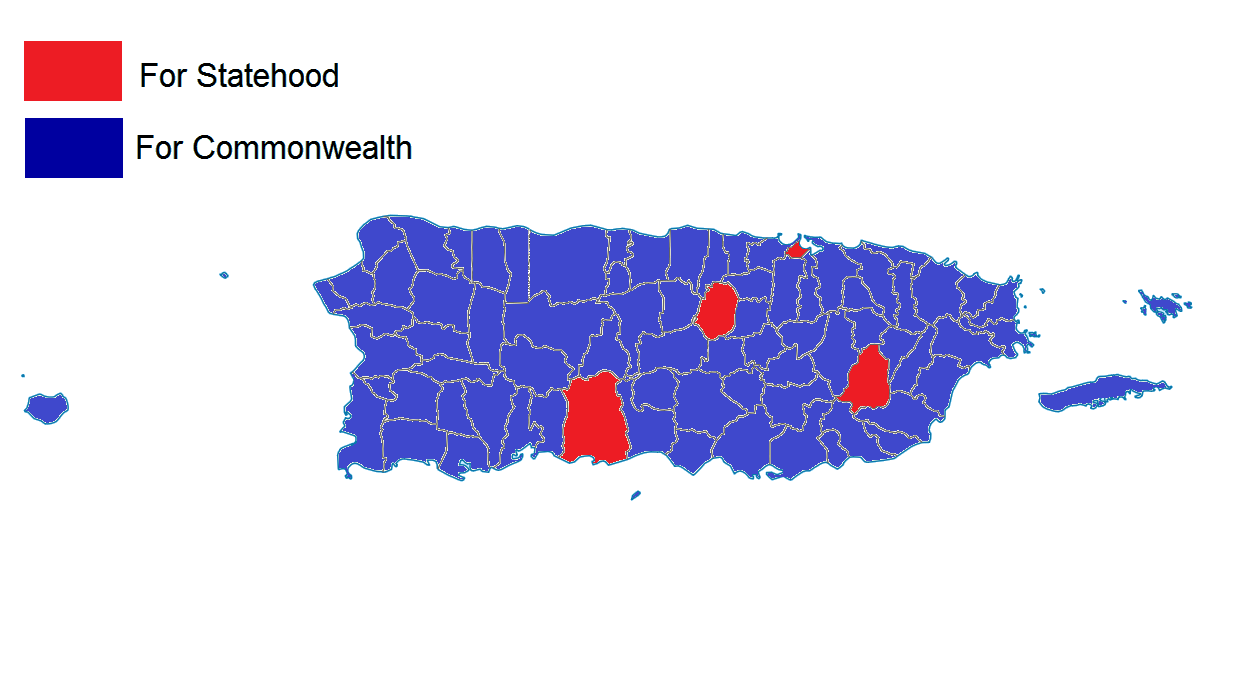 Puerto Rican status referendum, 1967 results by municipality